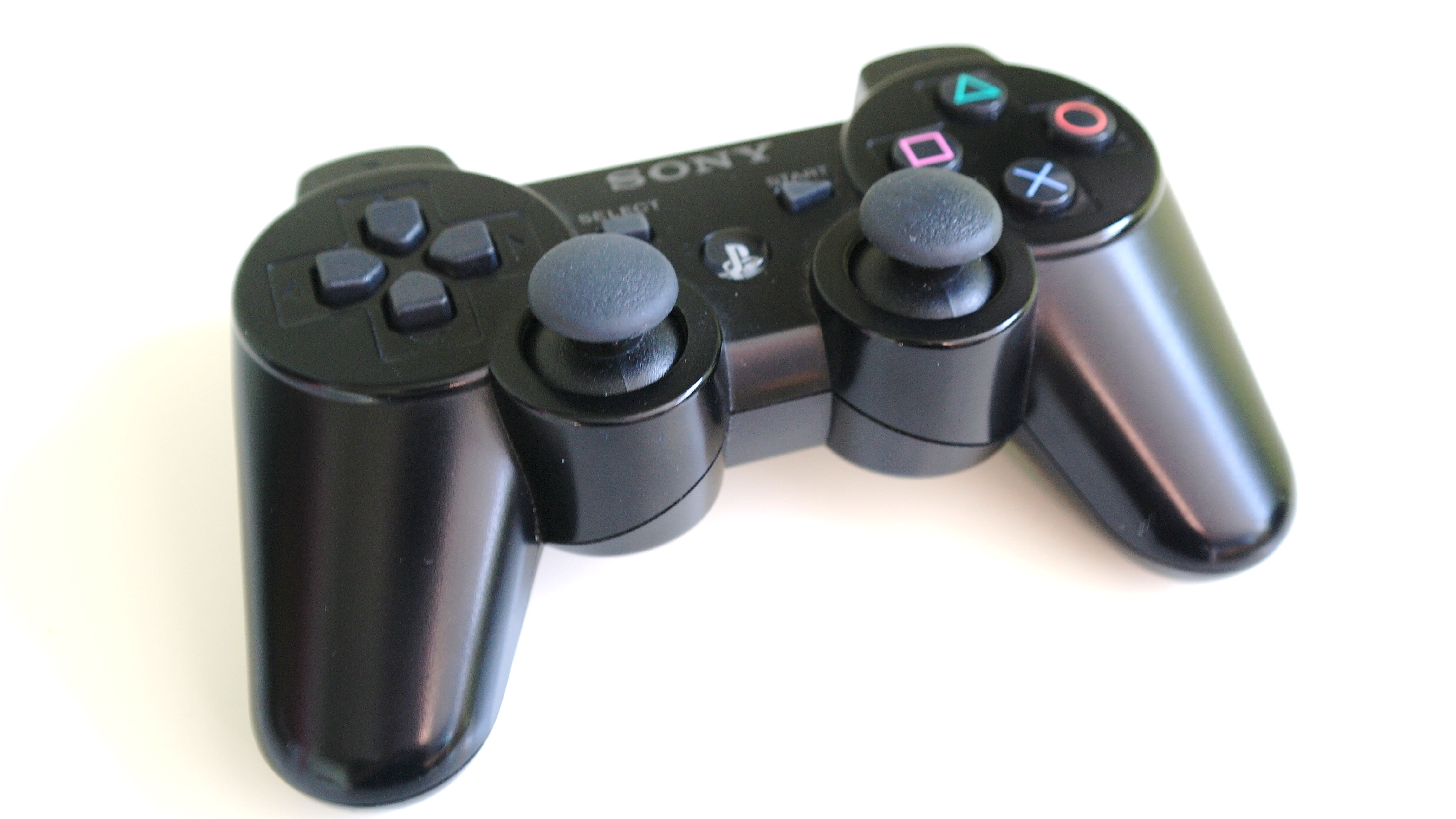 Black SIXAXIS controller